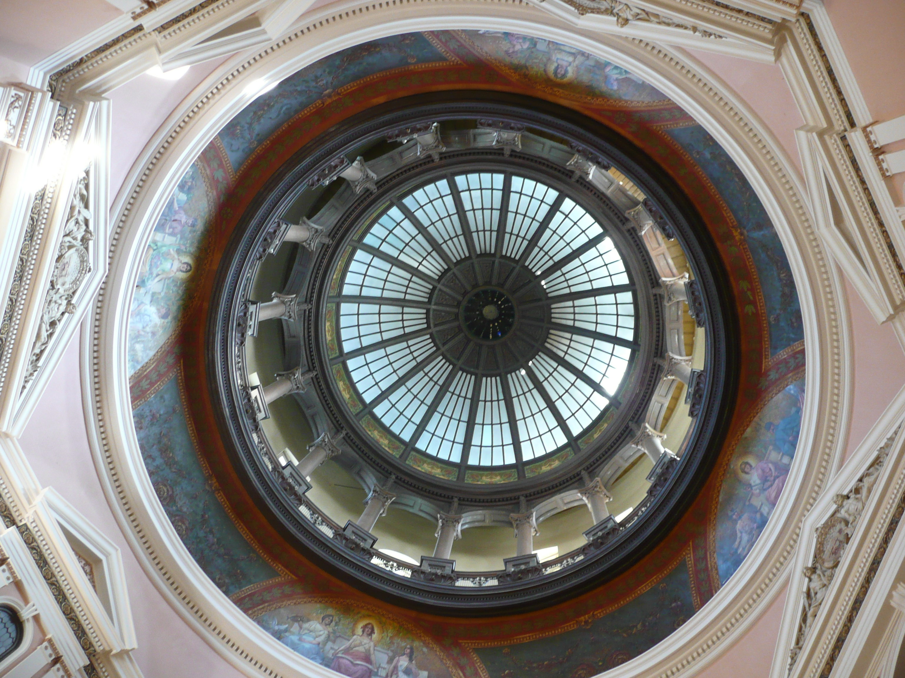 The inside dome of the Kansas State Capitol in Topeka, Kansas.